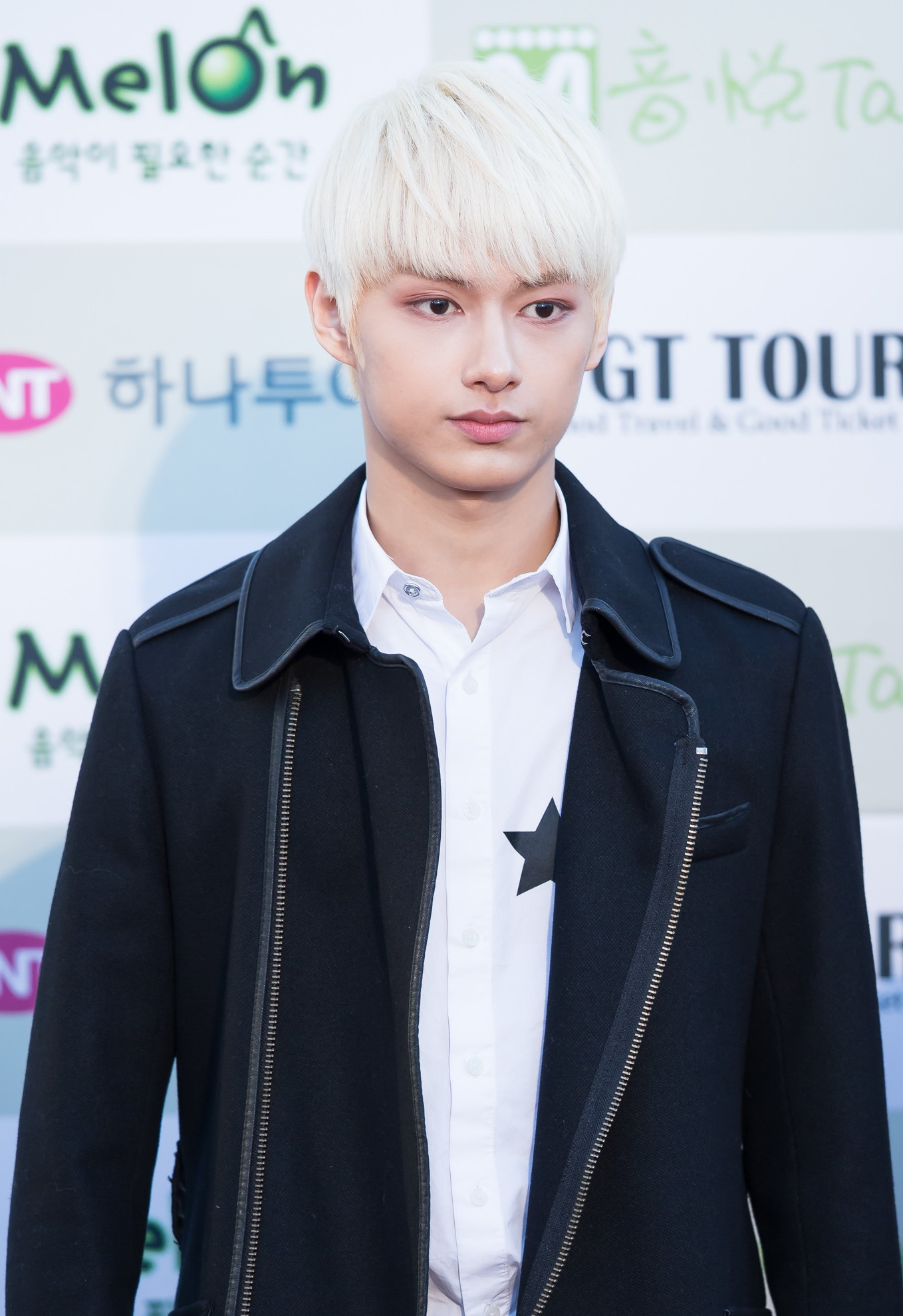 Jun on the red carpet of the Gaon Chart K-pop Awards, on February 17, 2016.